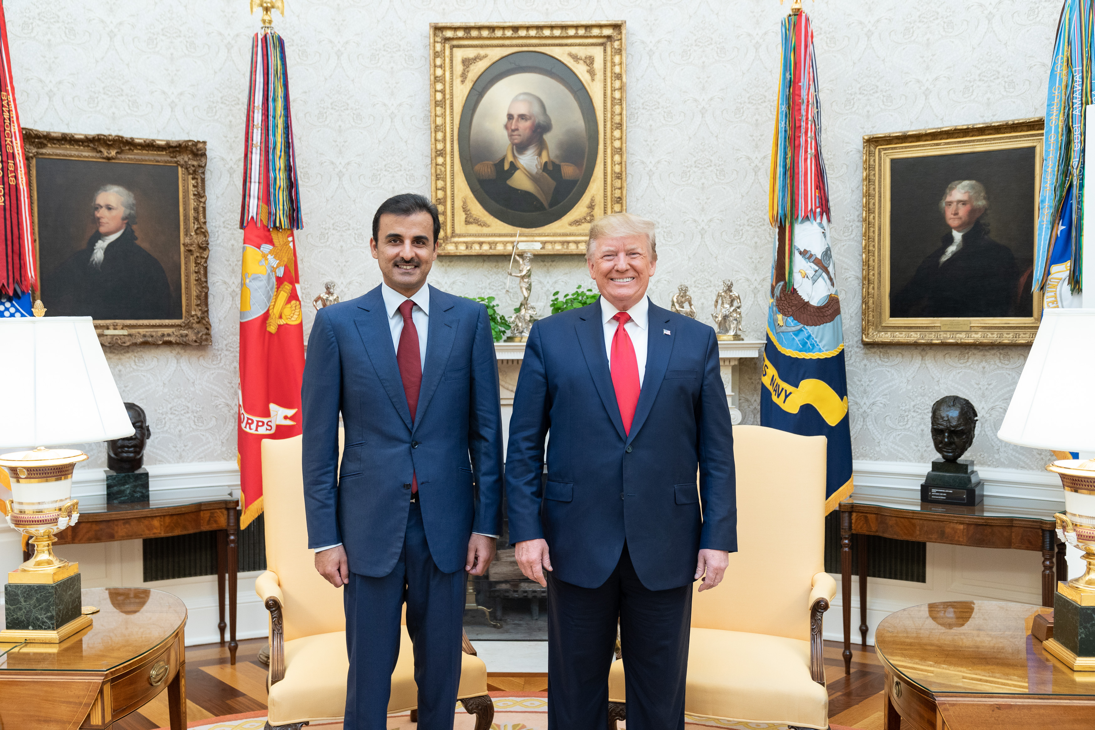 President Donald J. Trump meets with the Amir of Qatar Tamin bin Hamad Al Thani Tuesday, July 9, 2019, in the Oval Office of the White House. (Official White House Photo by Shealah Craighead)